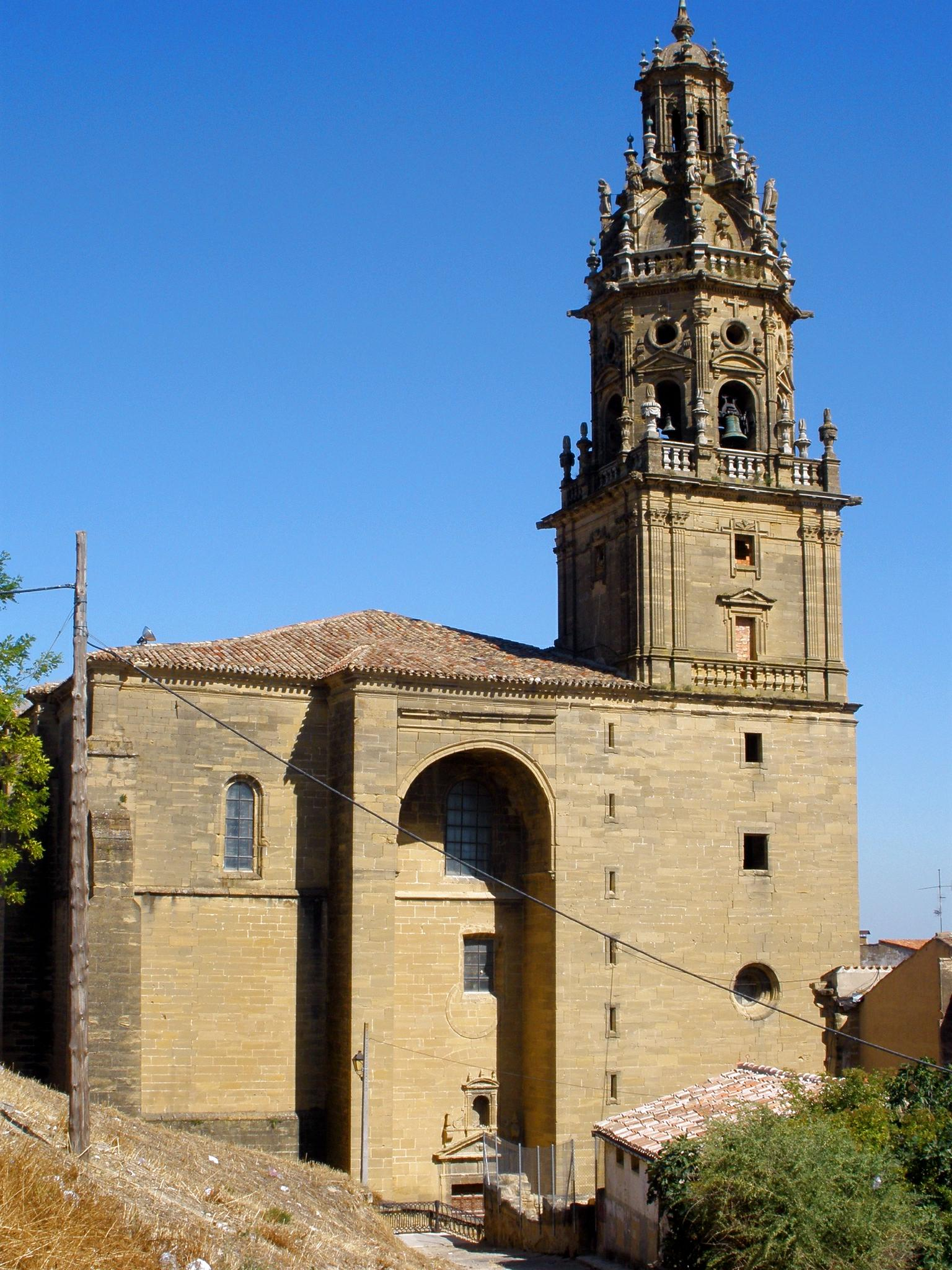 Iglesia parroquial de Santo Tomás, en Haro (La Rioja, España)